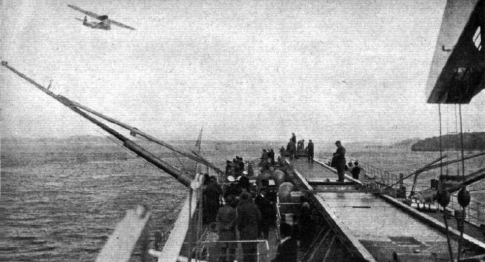 A German Lufthansa Dornier Do 18 flying boat circles the catapult ship Ostmark after take-off, circa 1937.